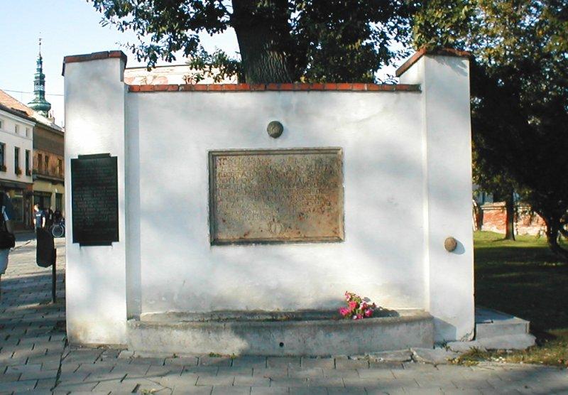 Swedish plaque in the town of Litovel.